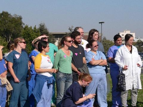 Touro University student protest to support Touro0 University Gay-Straight Alliance. Sept 11 2007.